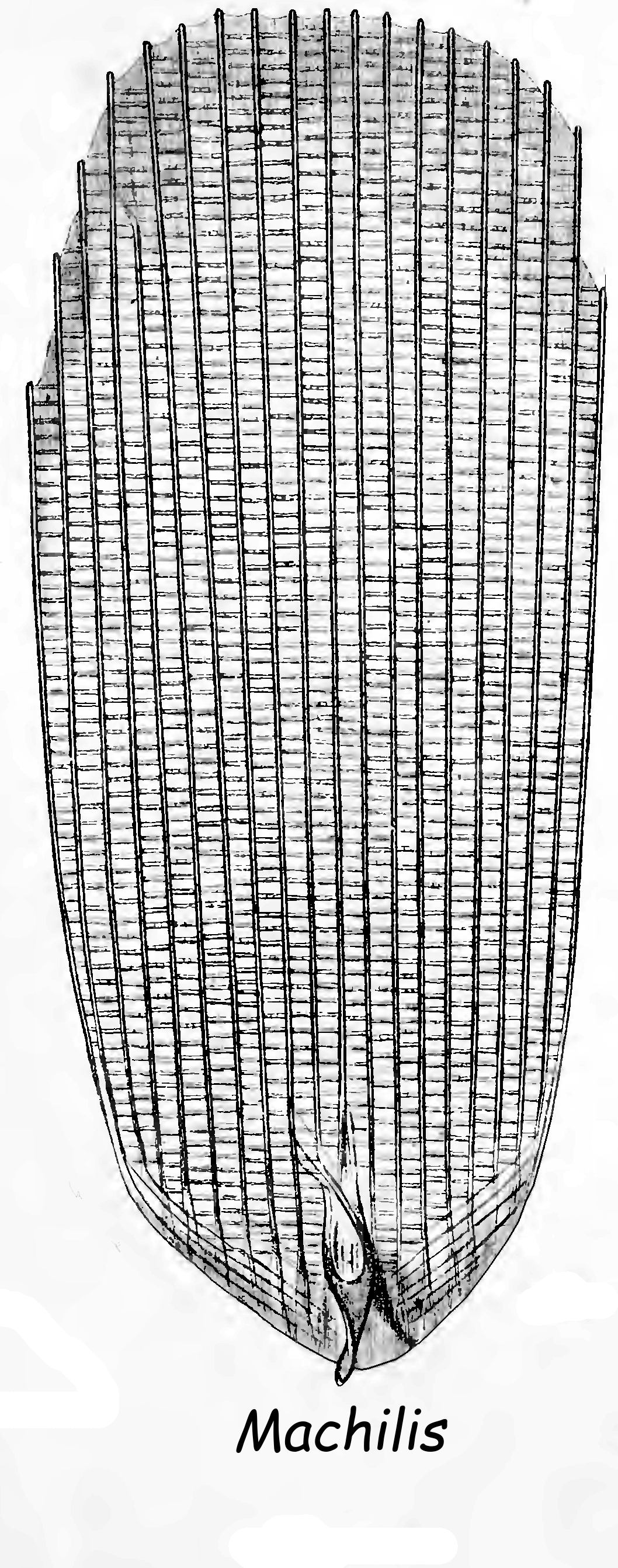 Image of scale of unspecified species of Machilis after drawing by J. R. Beck in the 1873 work of Sir John Lubbock